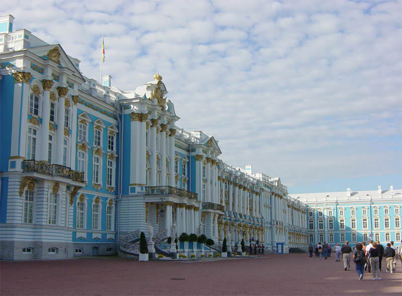 Pushkin (Russia), Catherine Palace. What is now seen as painted golden yellow was in Catherine the second's time gilded - covered with a thin layer of gold powder.